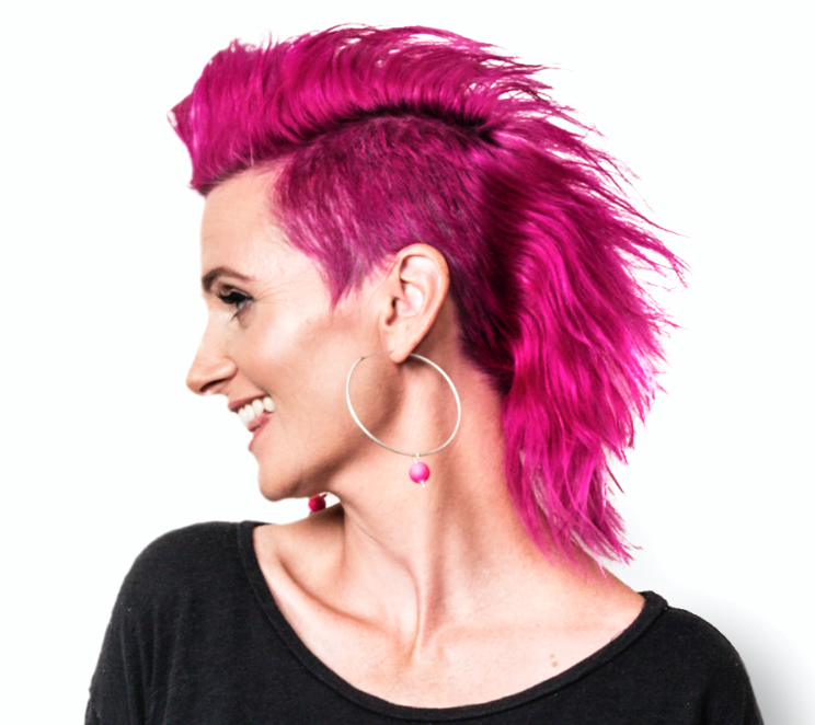 Lucy Bloom is a speaker, author and consultant.